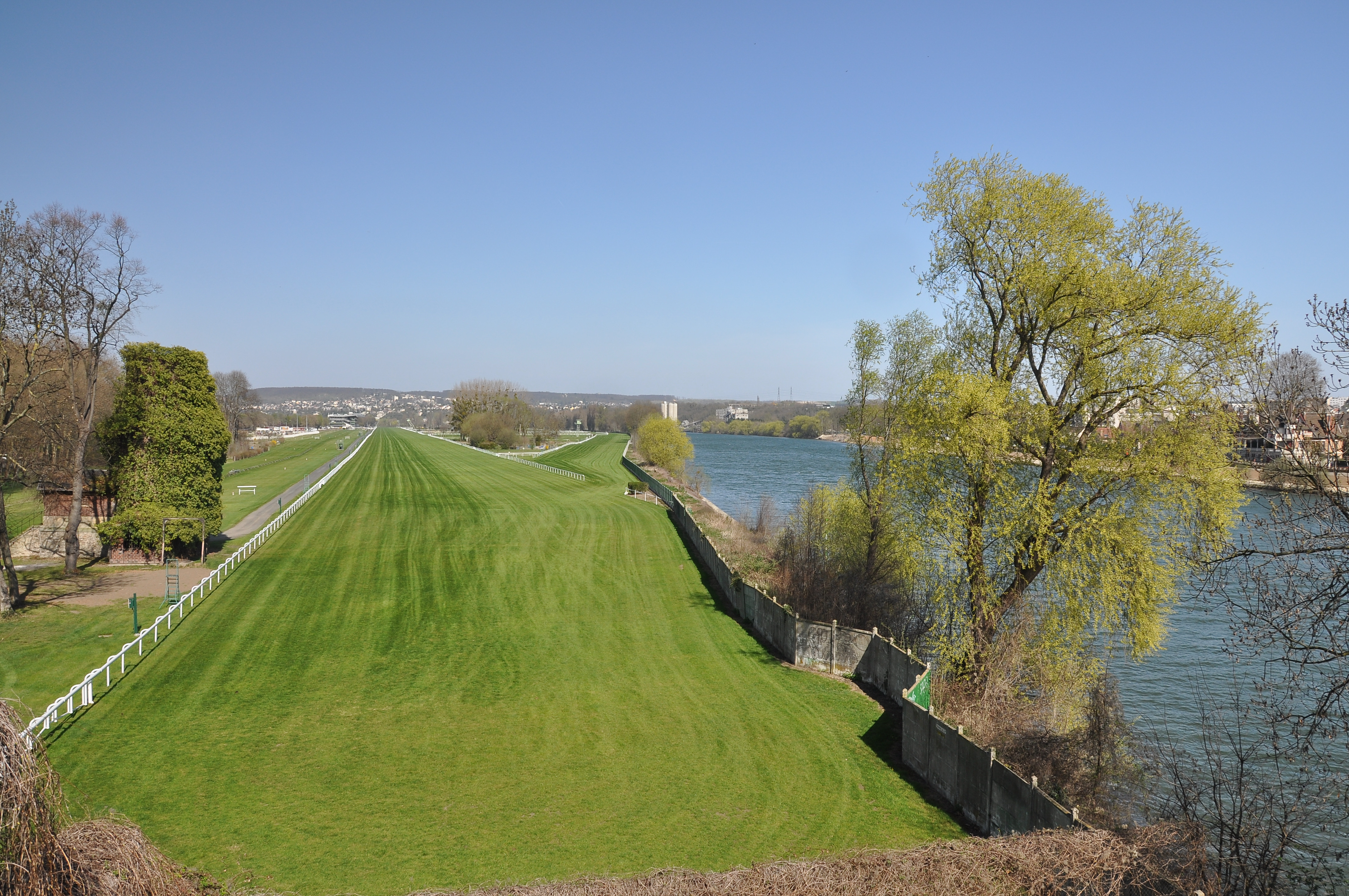 Racecourse of Maisons-Laffitte in Yvelines department, France. This racecourse was inaugurated in 1878, his straight line of 2300m is the longest in Europe.